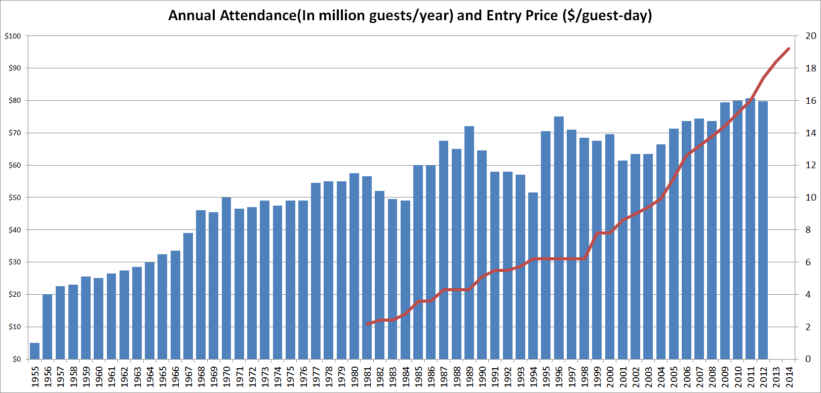 Bar graph of attendance of Disneyland Park in California